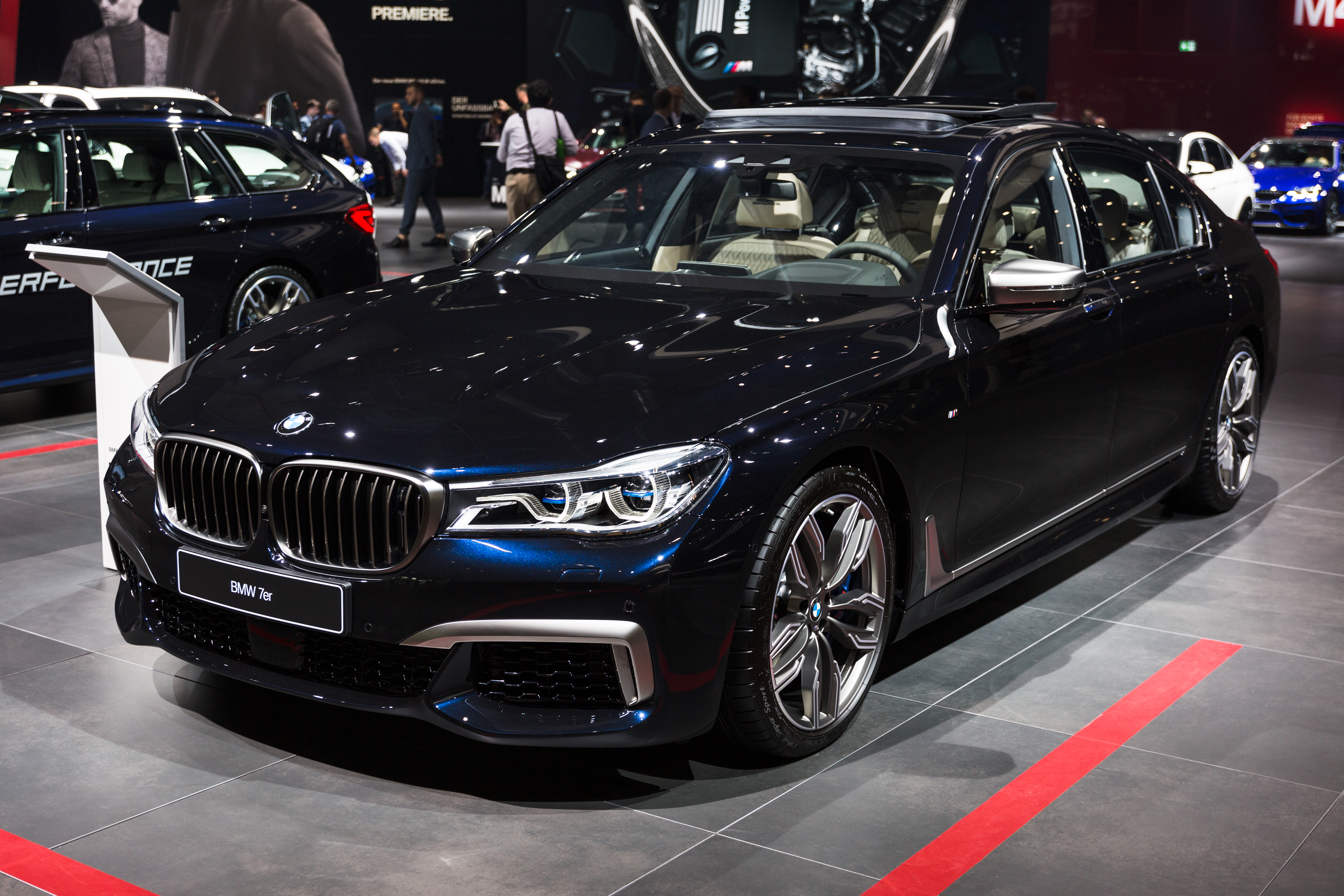 BMW M760Li xDrive, IAA 2017